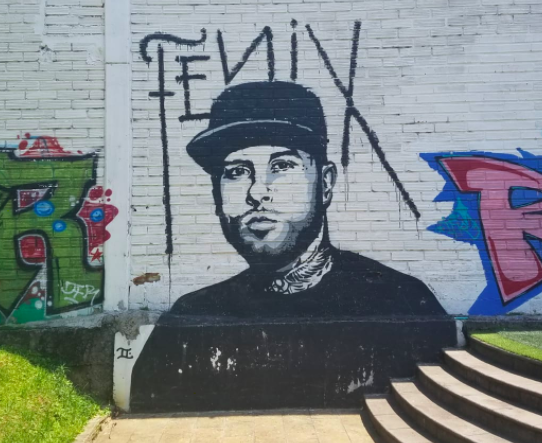 A mural of Nicky Jam in Medellin, Colombia, photographed in April 2018.